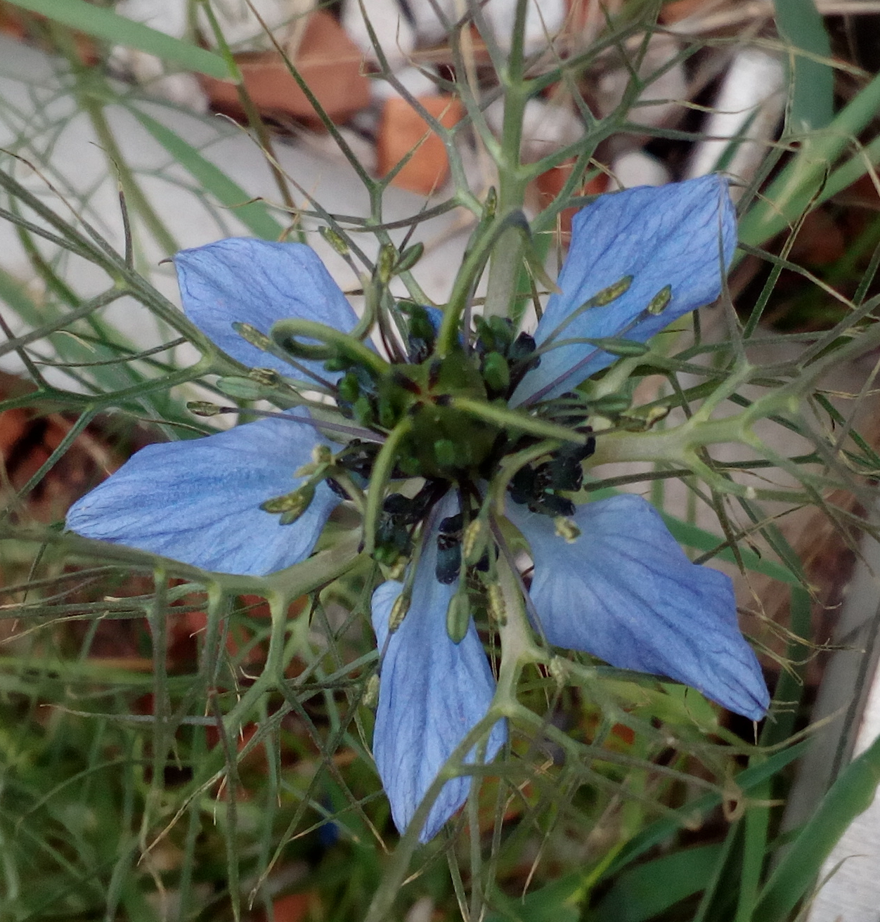 Blue Nigella